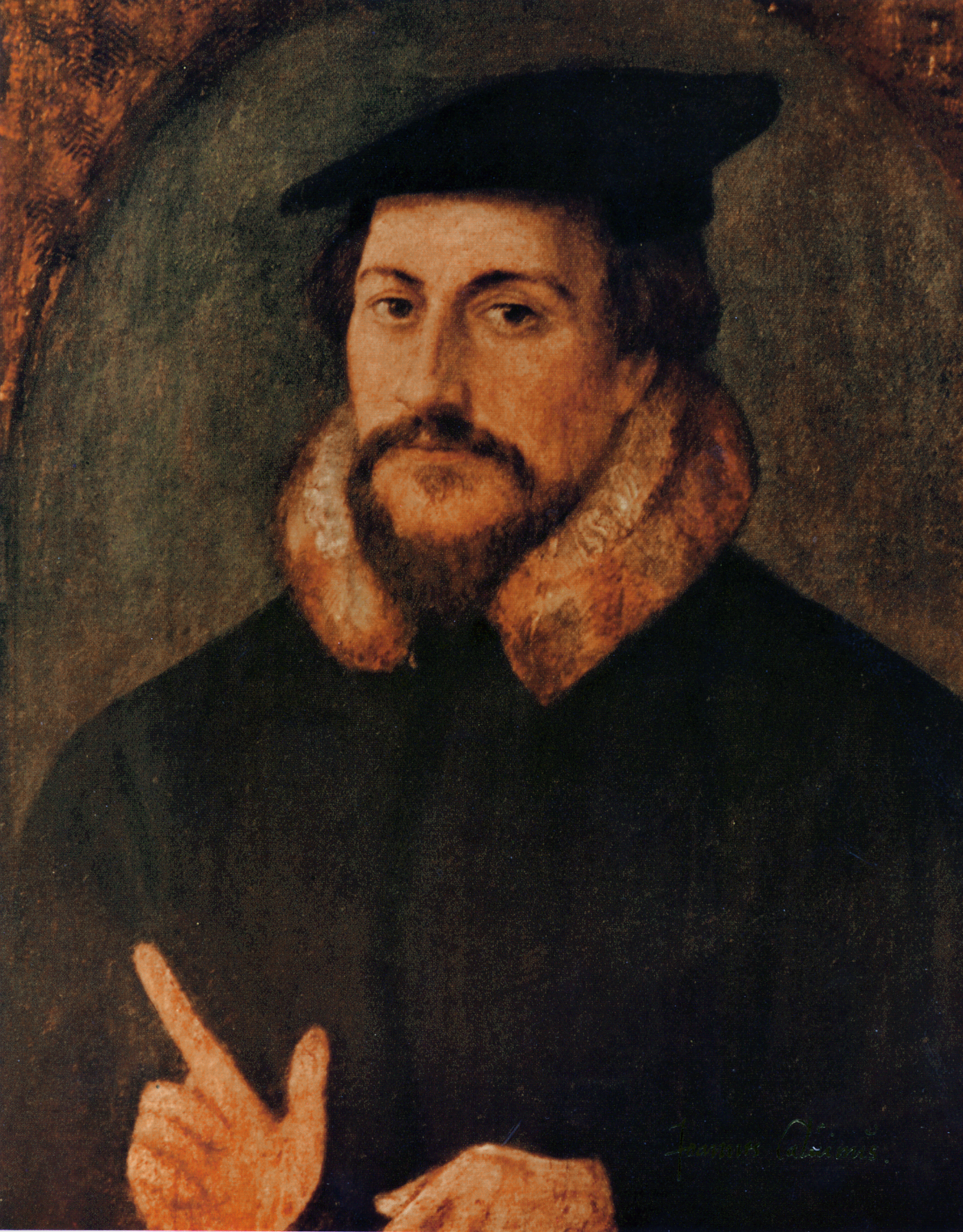 Portrait of a man sometimes identified as John Calvin. The artist responsible for this portrait has not been identified.